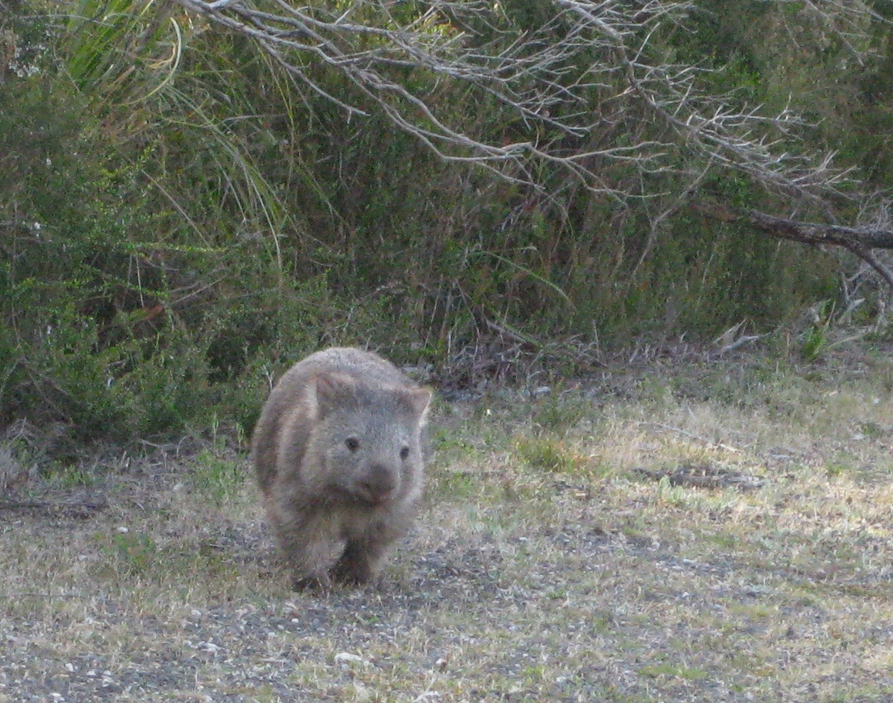 Common wombat (Vombatus ursinus) at Wilsons Promontory National Park